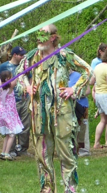 Rob Wood, owner of Spoutwood Farm Center, dressed as the Greenman, watches over the Maypole while soap bubbles float by.